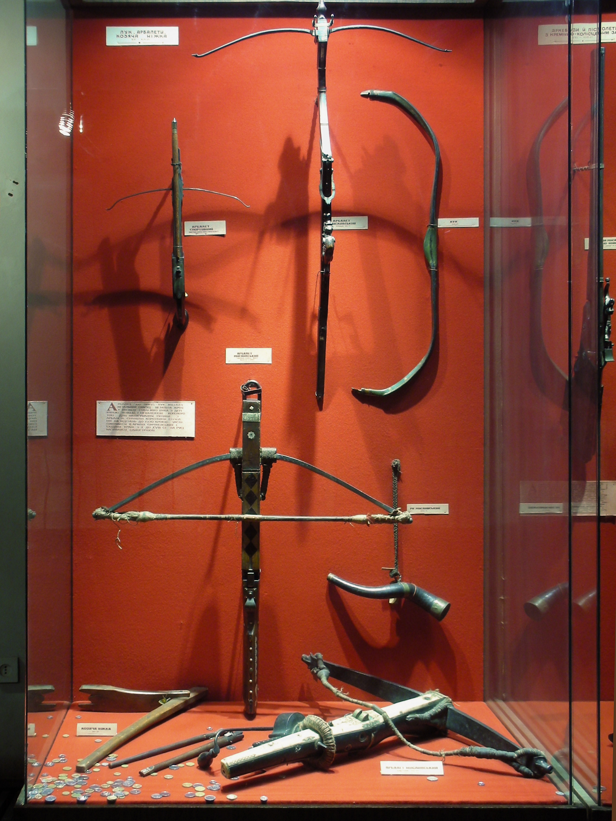 "Arsenal" Museum in Lviv (Ukraine).